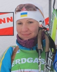 Olena Pidhrushna on Biathlon World Cup mixed team podium in 2010, Pokljuka